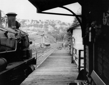 Ardglen station near the summit of the Liverpool Range